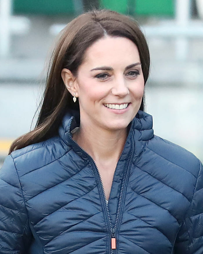 The Duchess of Cambridge visited the National Stadium Belfast, home of the Irish Football Association.